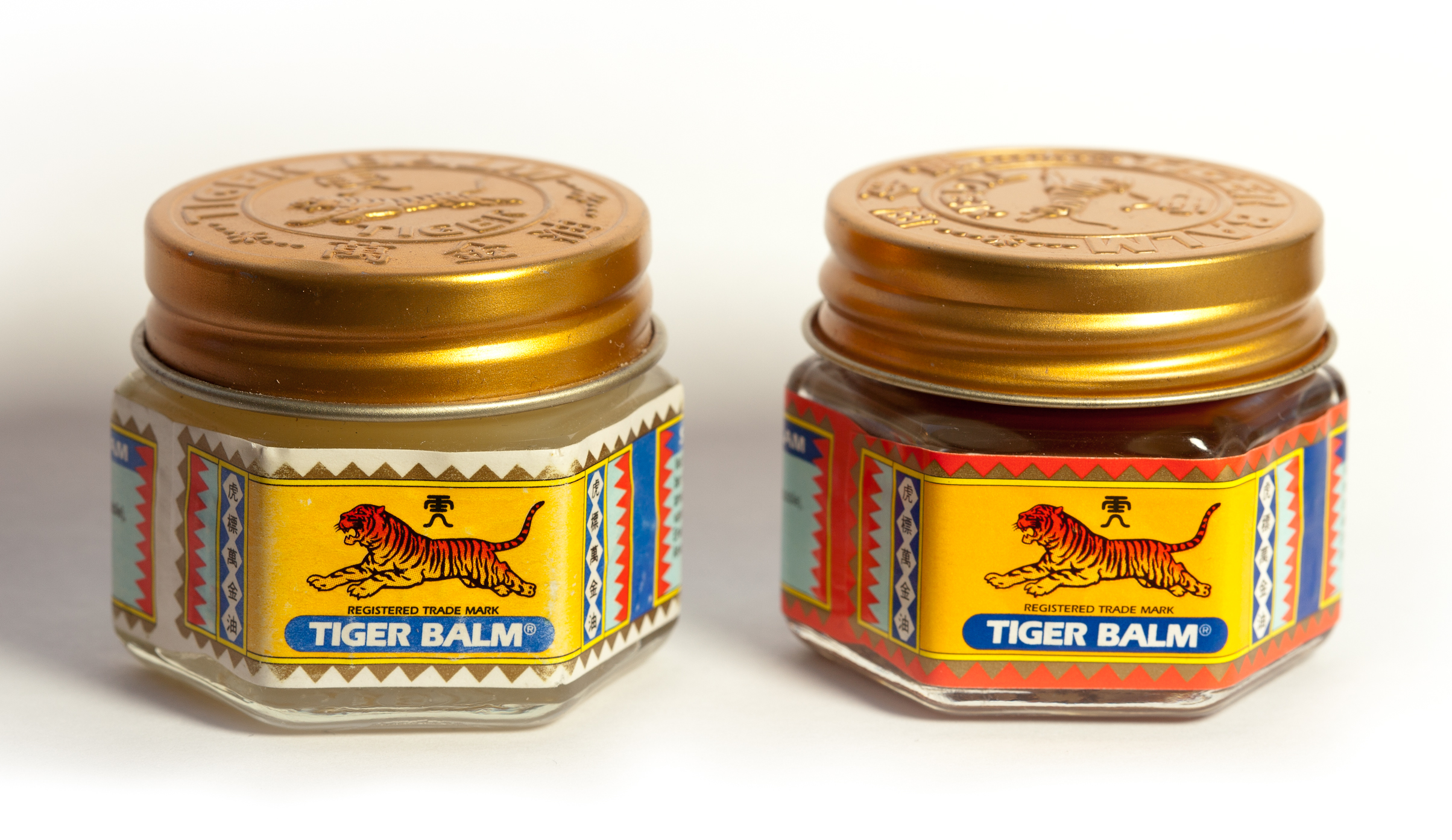 Red and white tigerbalm